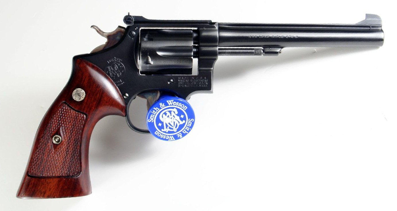 Smith & Wesson K22 Pre 17 5 Screw 1948 Mfg.